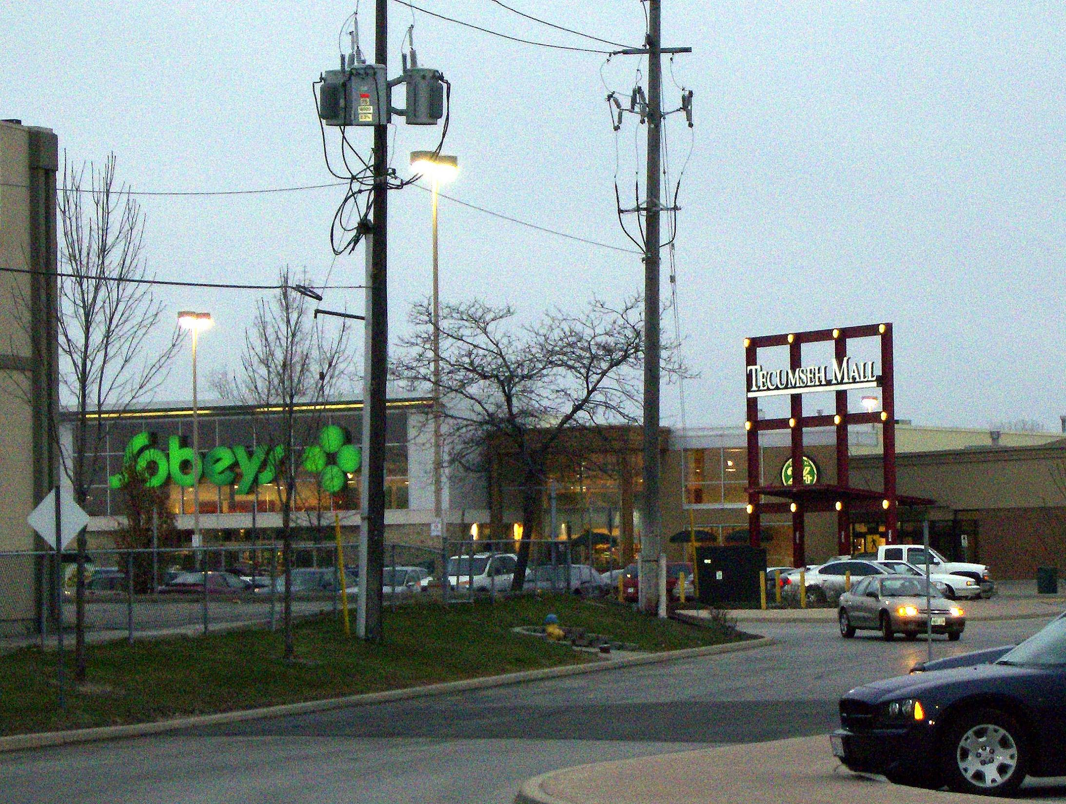 self made